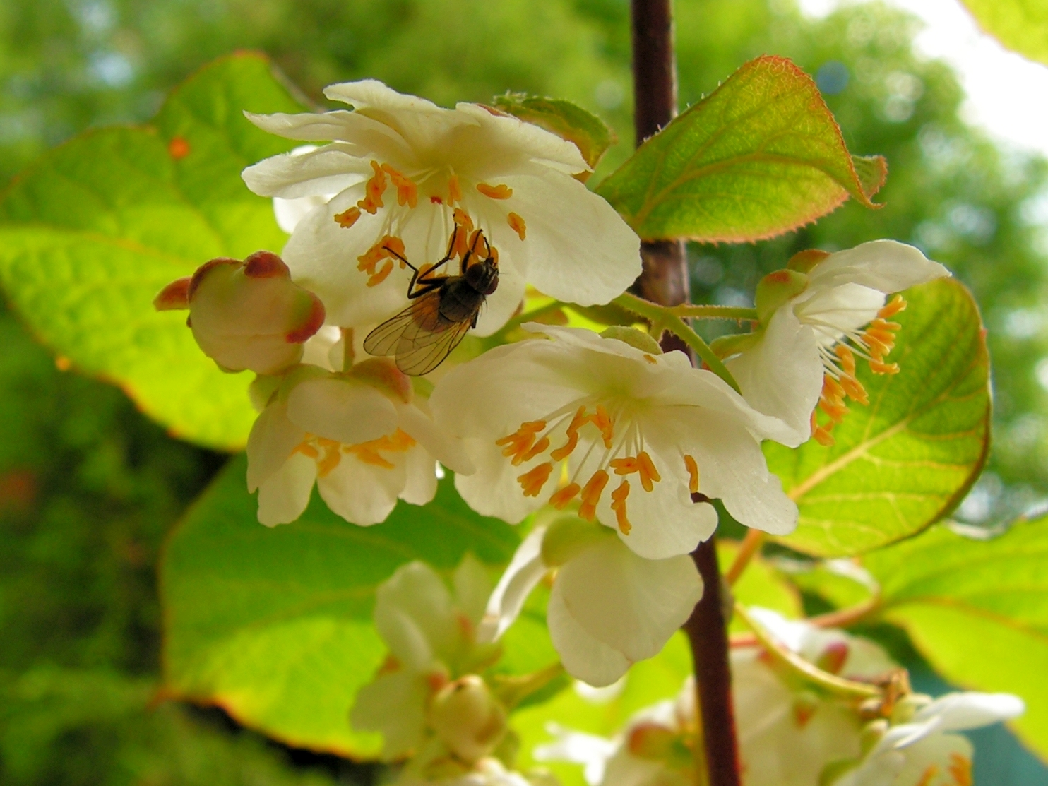 The fly on the flower of cultivated Actinidia kolomikta. Moscow region, Russia.